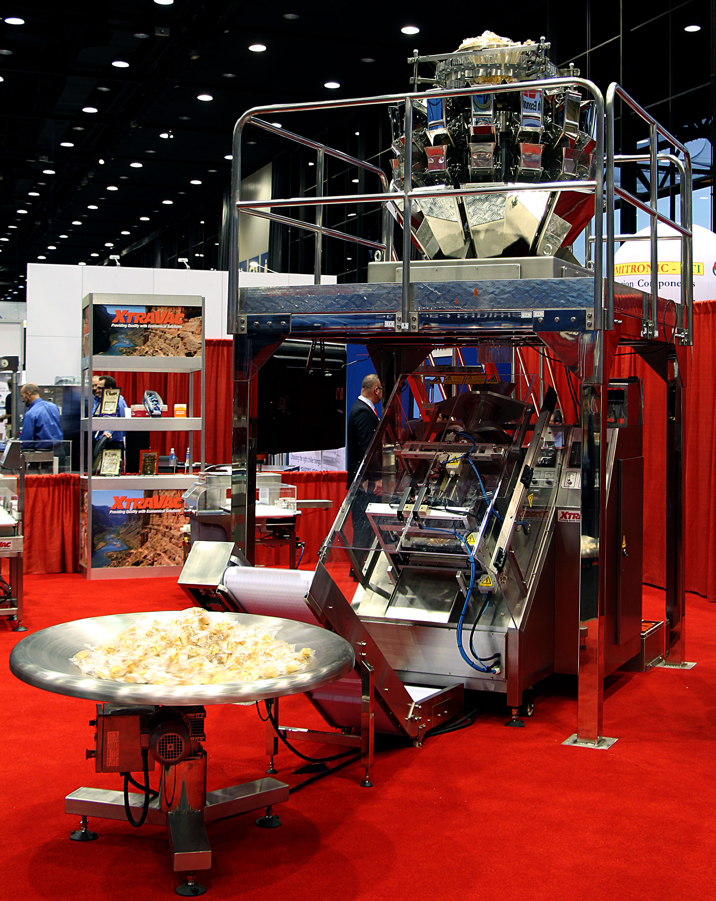 XtraVac Multihead weigher into an Inclined vffs vertical form-fill-seal packaging machine, simple conveyor, and rotary collection table with XtraPlast rollstock film. Set up to package cheese, beef jerky, nuts, grain, candy, cookies. Made to quickly portion and package fresh or frozen foods.